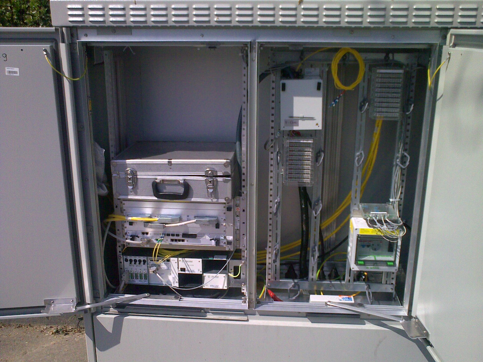 View into a Outdoor DSLAM in Aachen